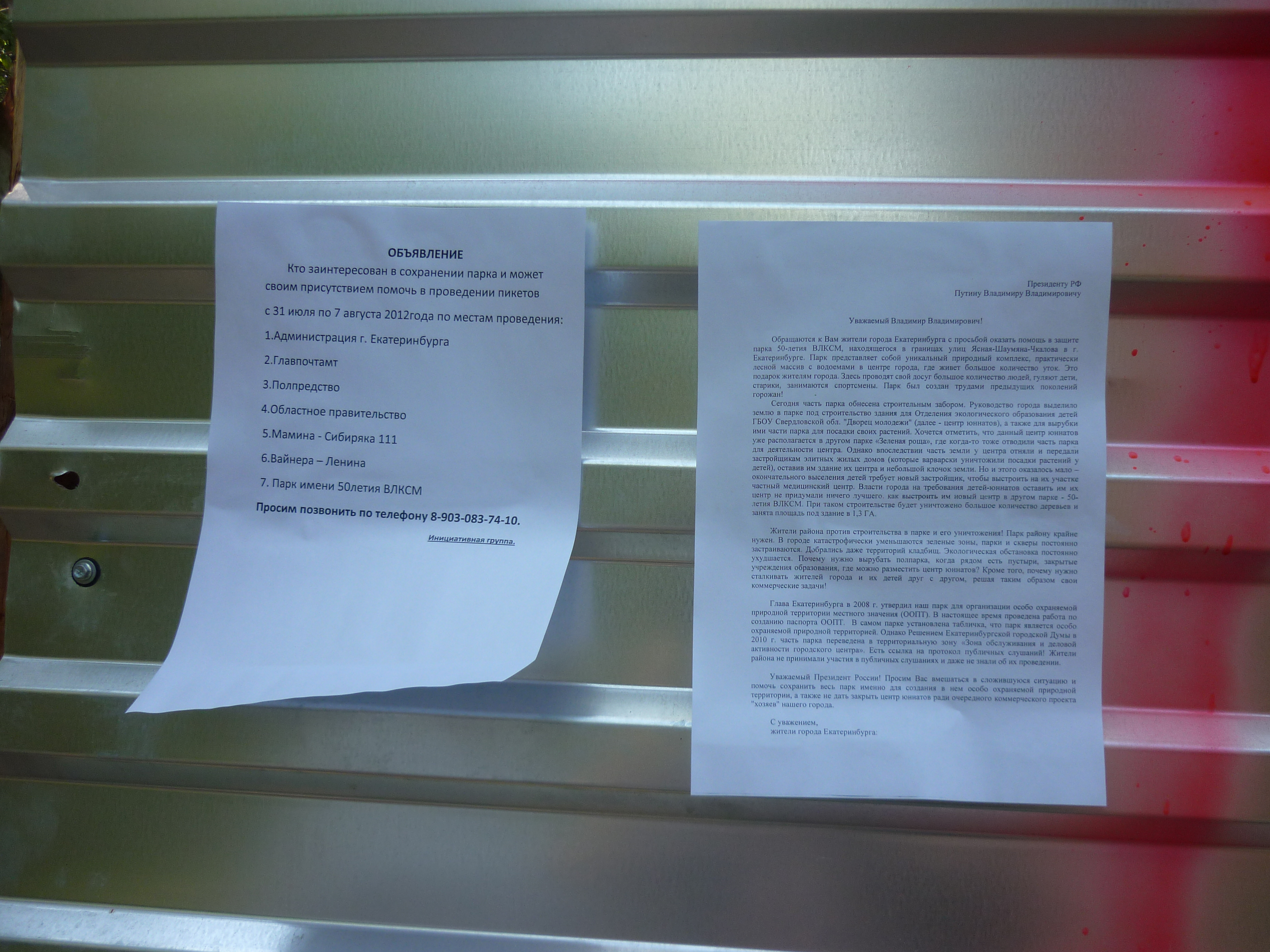 Sobachij Park, Yekaterinburg. An appeal for citizens to unite against the demolition of the park by construction business (on the left) and a petition to Vladimir Putin to help protect the park from being cut down.